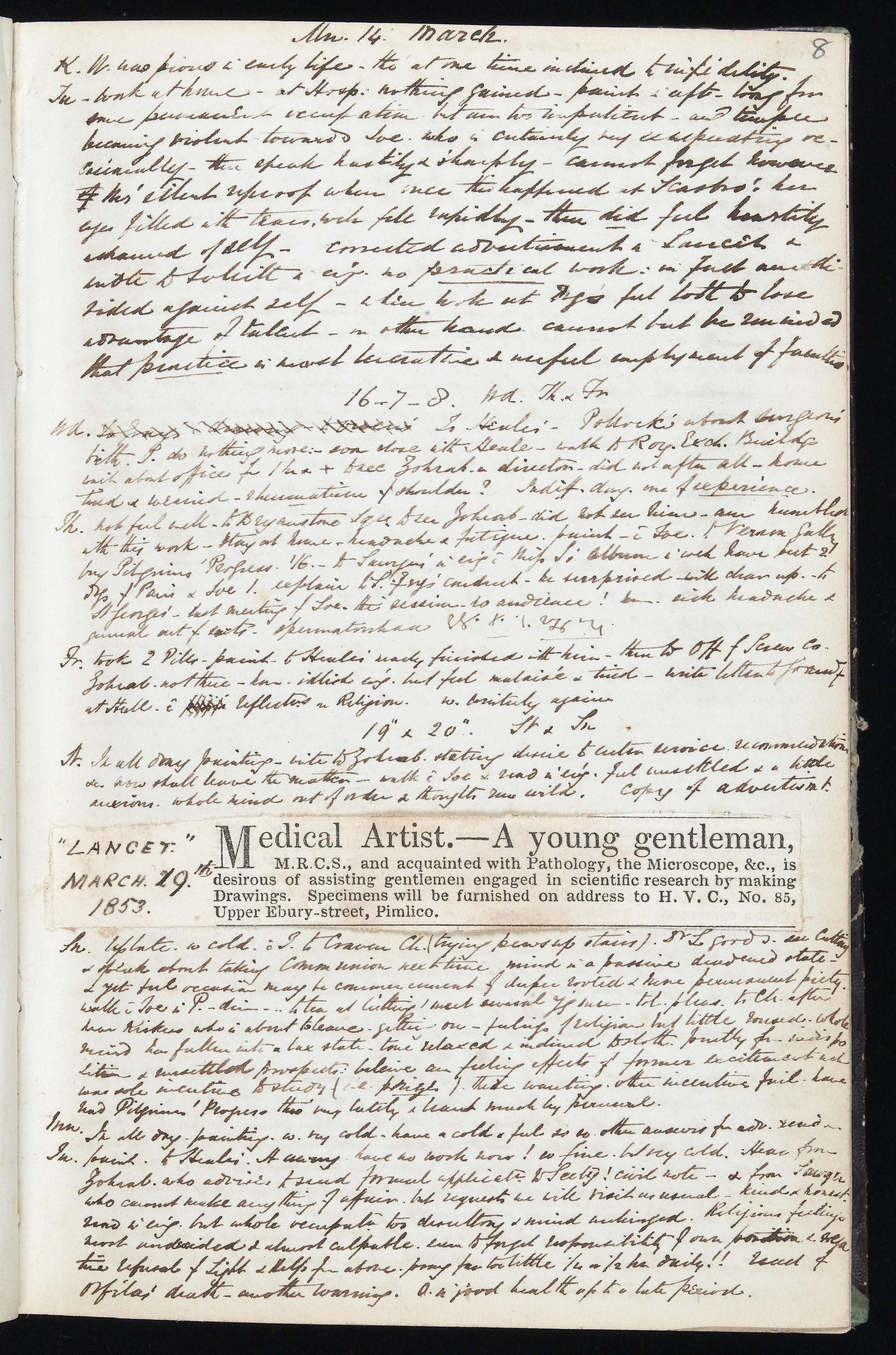 Page from Henry Vandyke Carter's Journal for 14th March-20th march 1853. Archives & Manuscripts